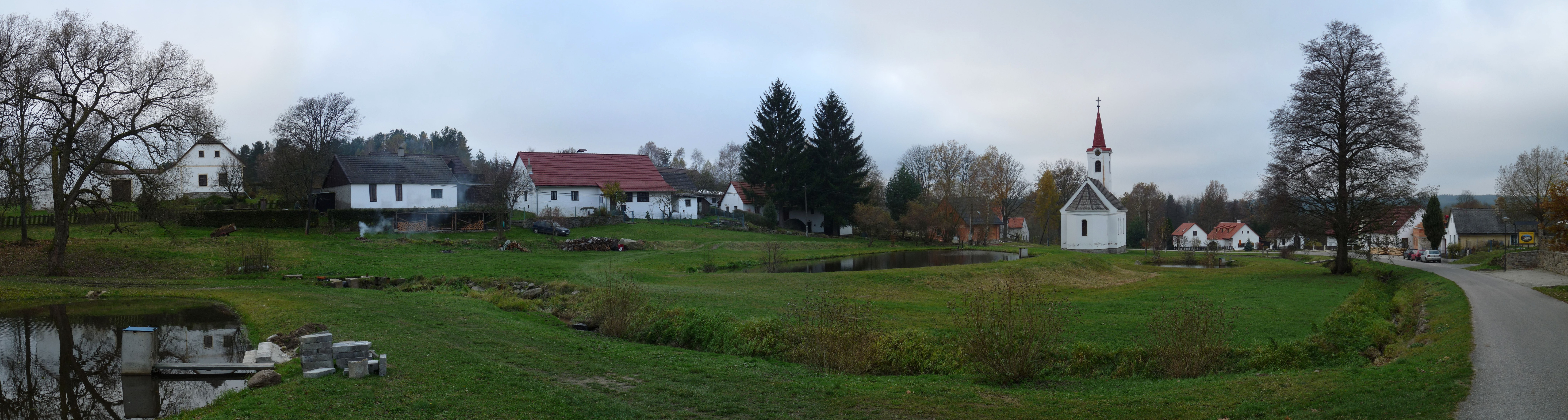 in the village of Nový Vojířov, part of the town of Nová Bystřice, Jindřichův Hradec District, South Bohemian Region, Czech Republic.